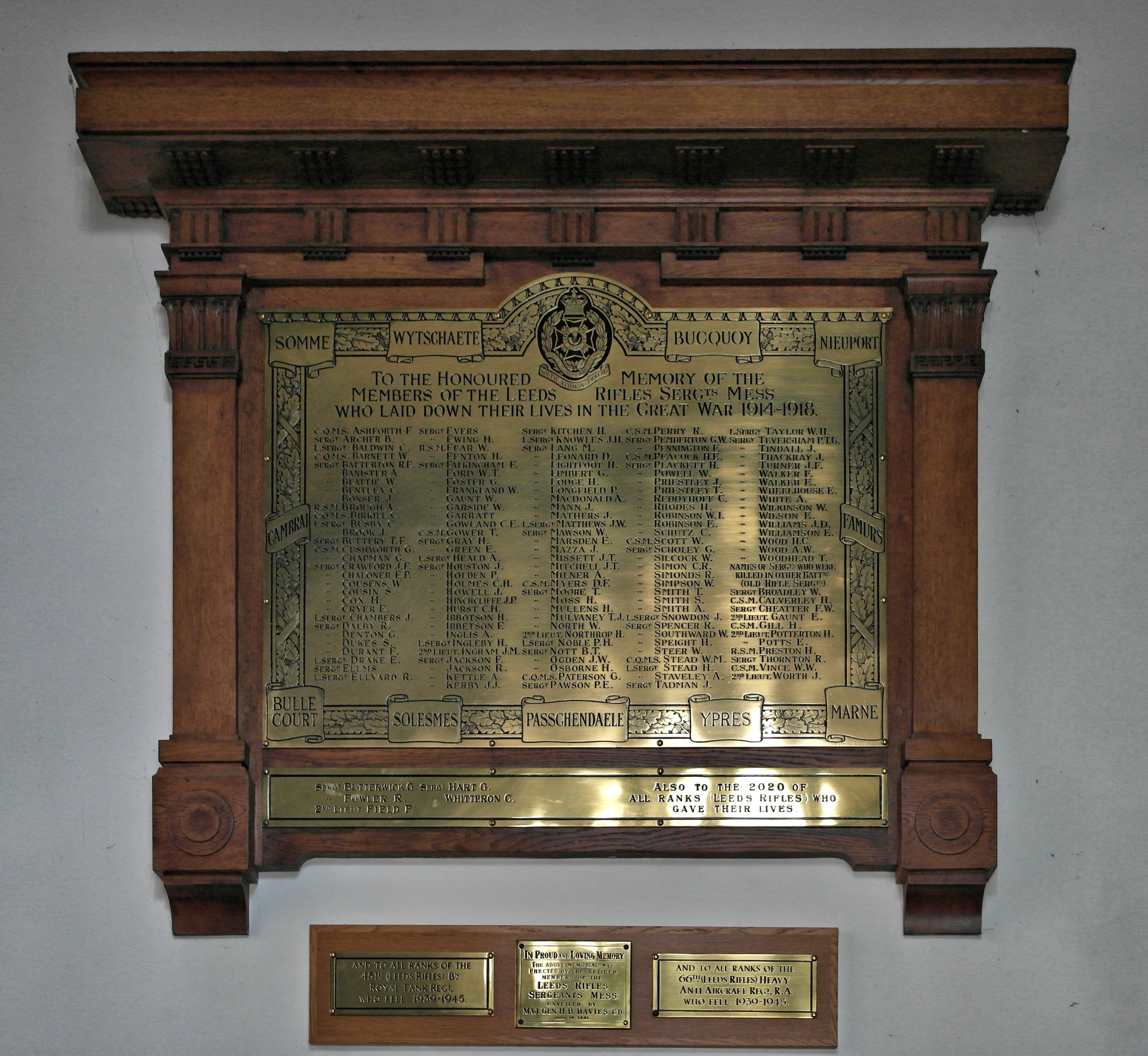 West Yorkshire Regiment (Leeds Rifles) 1914-1918